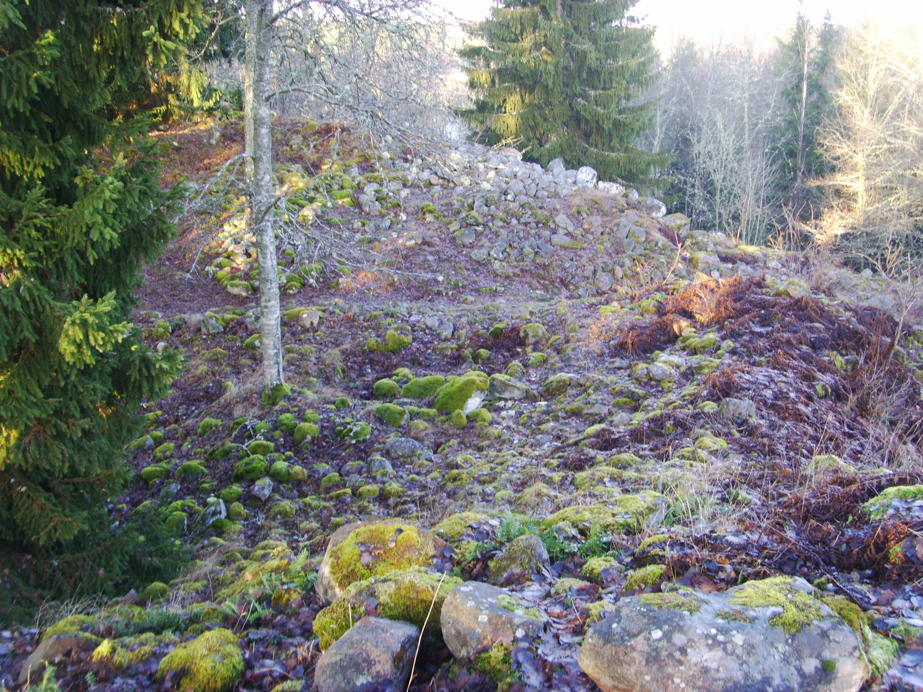 Tångstad hillfort (Borgberget – Kimstads socken, fornlämning 93) is one of the larger of Östergötlands hillforts and appear to have been permanently settled. The settlement is bound on west, north and east sides by an immense stone wall. The east are to be found the remainsof an outer wall in which was an entry to the fortification. To the south the hill slopes steeply down to lake Roxen. Archeological research in 1963 revealed the foundations of two houses. The house walls had been of wattle- and daub construction. Fragments of warpweights as well as potsherds chain mail and iron slag were found at the same time.